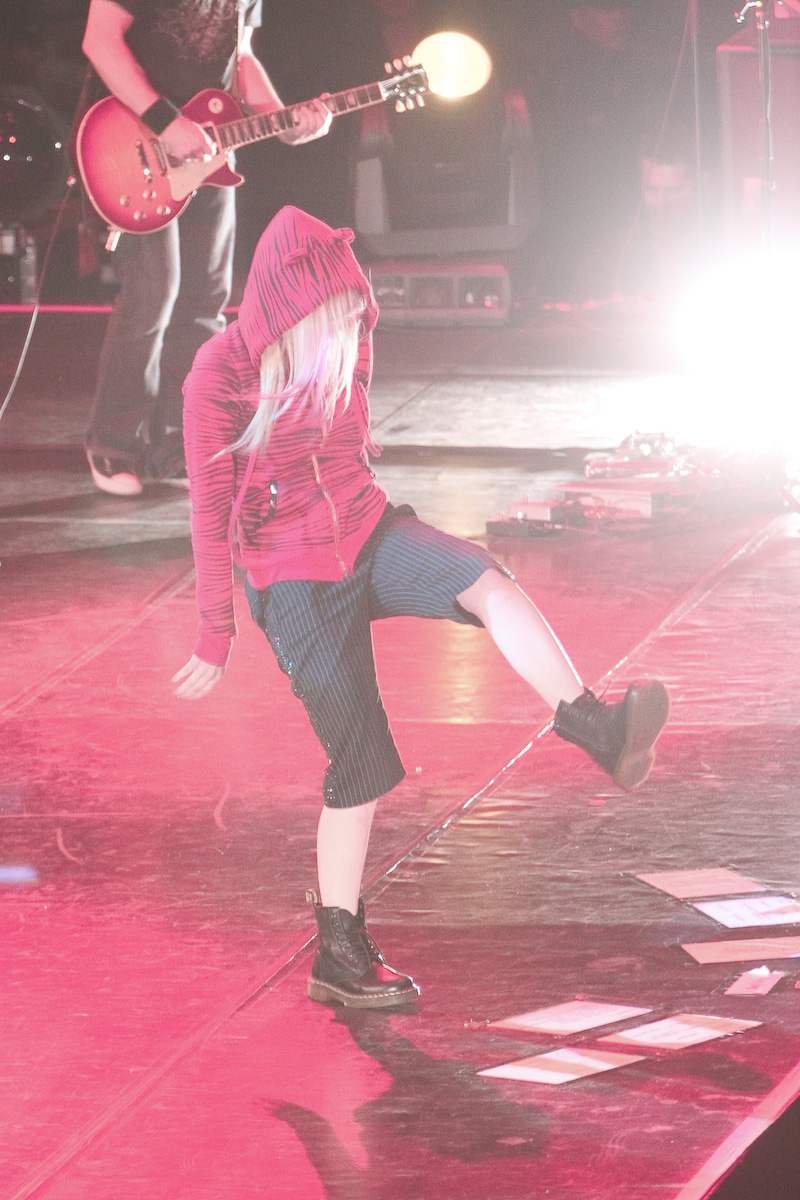 Avril Lavigne "The Best Damn Tour" @ Beijing Wukesong Arena